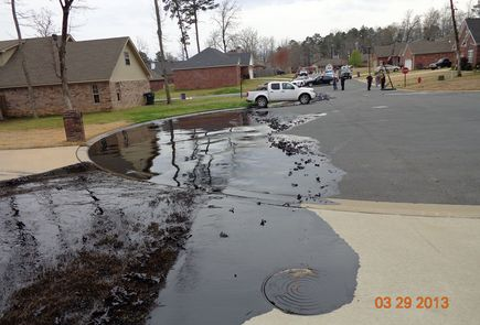 Mayflower oil spill - Subdivision2